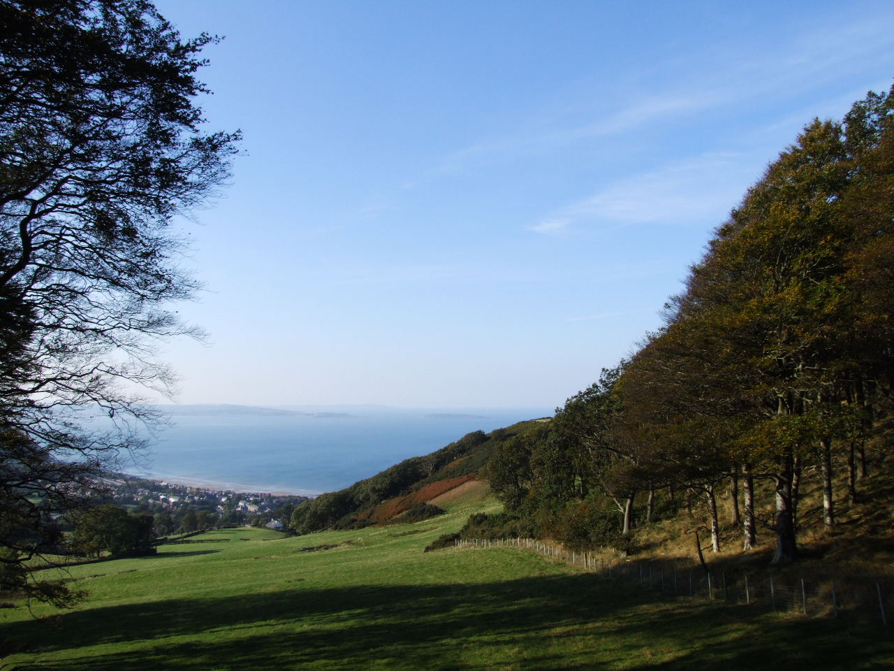 View of Penmaenmawr, Conwy, Wales; a photo taken by myself and hereby released to the public domain